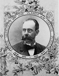 Josep Vilaseca i Casanovas (Barcelona, 1848 - Barcelona, 1910) was a Catalan architect